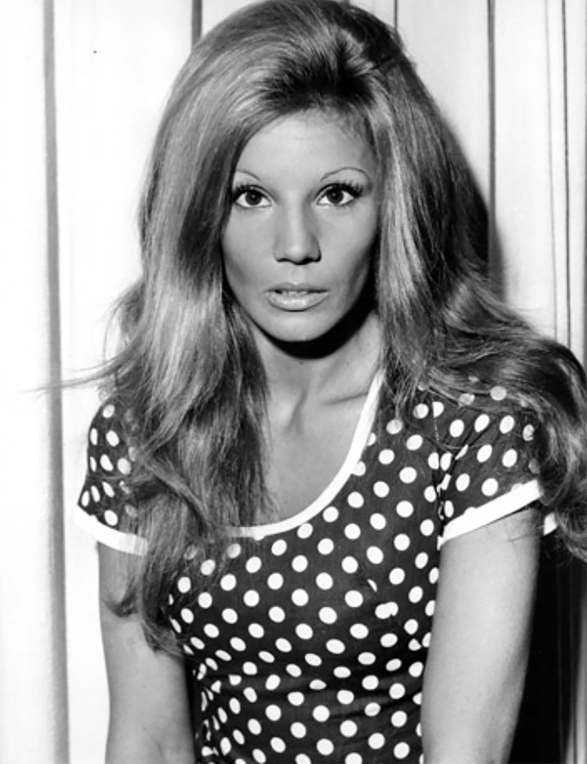 Argentine actress Susana Giménez